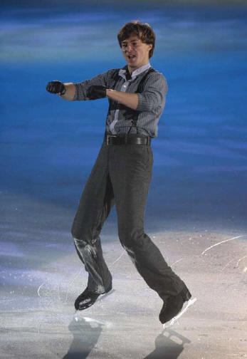 Ilia Kulik at the 2008 Christmas On Ice – Yokohama